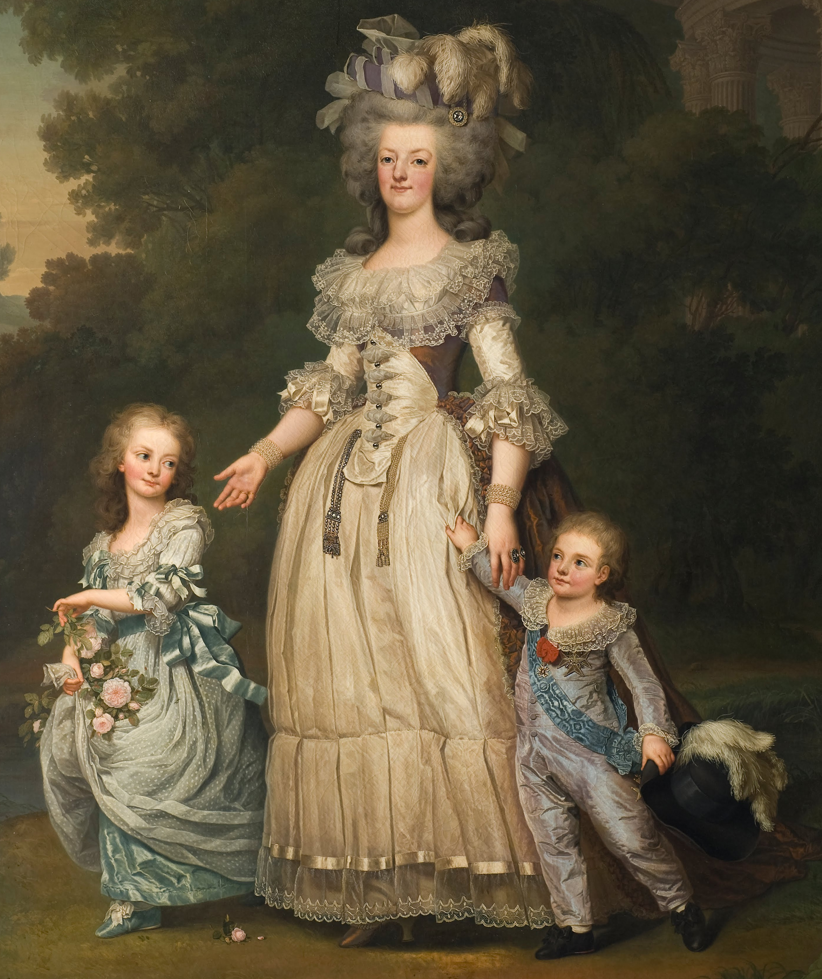 A cropped version of File:Adolf Ulrik Wertmüller - Queen Marie Antoinette of France and two of her Children Walking in The Park of Trianon - Google Art Project.jpg for use in article en:1750-1795 in fashion, to demonstrate the radical changes in little girls' clothing styles during the 1780s (see Image:1778-Bourgeois-daughter-fashion.jpg for comparison).